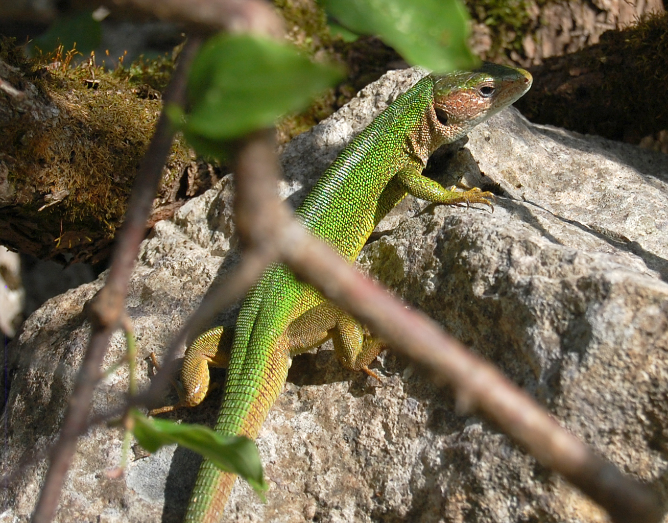 Plesa mare peak Metaliferi mountains Carpathians Romania